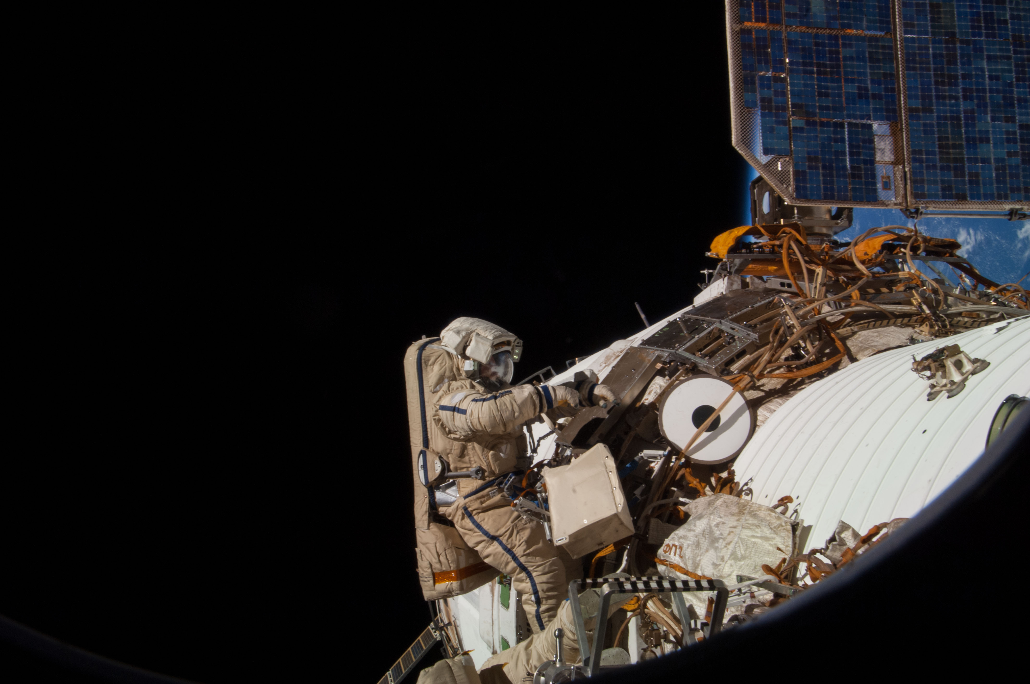 Russian cosmonauts Sergey Ryazanskiy, Expedition 38 flight engineer; and Oleg Kotov (out of frame), commander, attired in Russian Orlan spacesuits, participate in a session of extravehicular activity (EVA) in support of assembly and maintenance on the International Space Station. During the six-hour, eight-minute spacewalk, Kotov and Ryazanskiy completed the installation of a pair of high fidelity cameras that experienced connectivity issues during the Dec. 27 spacewalk, and retrieved scientific gear outside the station's Russian segment.